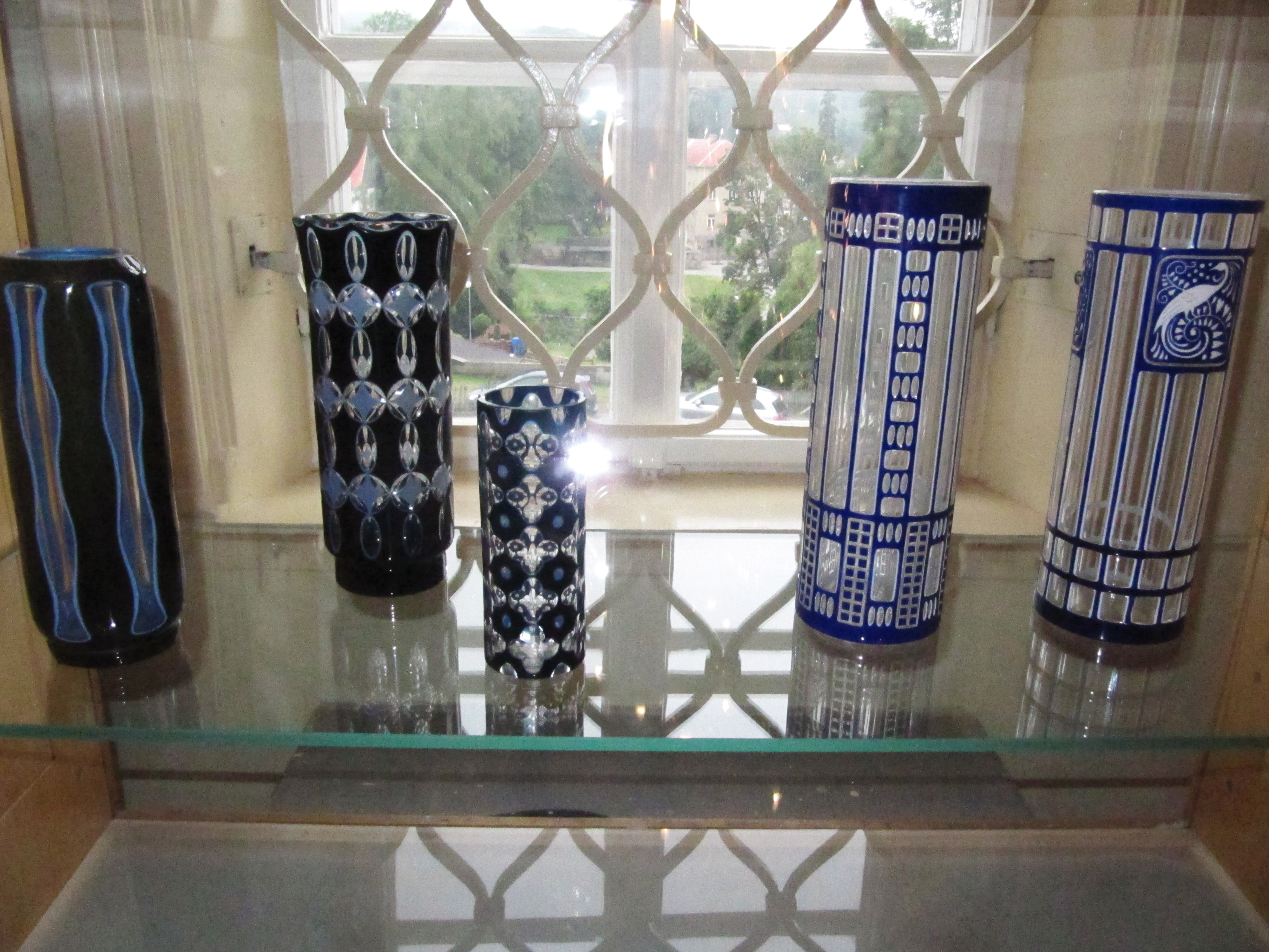 Kamenický Šenov in Česká Lípa District, Czech Republic. Glass museum.